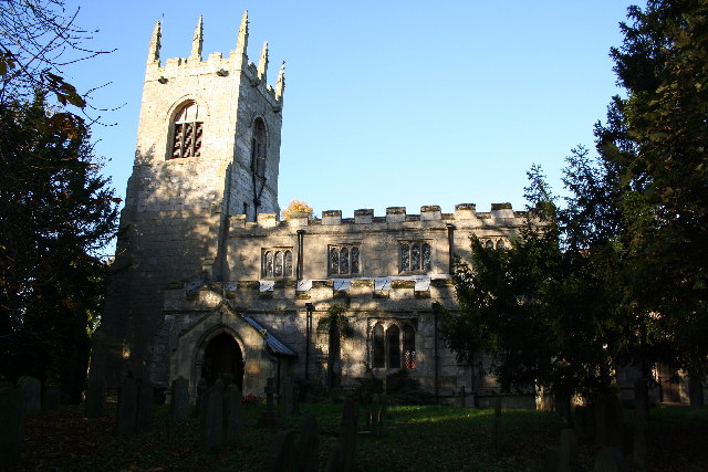 Parish church of St Mary Magdalene, Walkeringham, Nottinghamshire, seen from the south